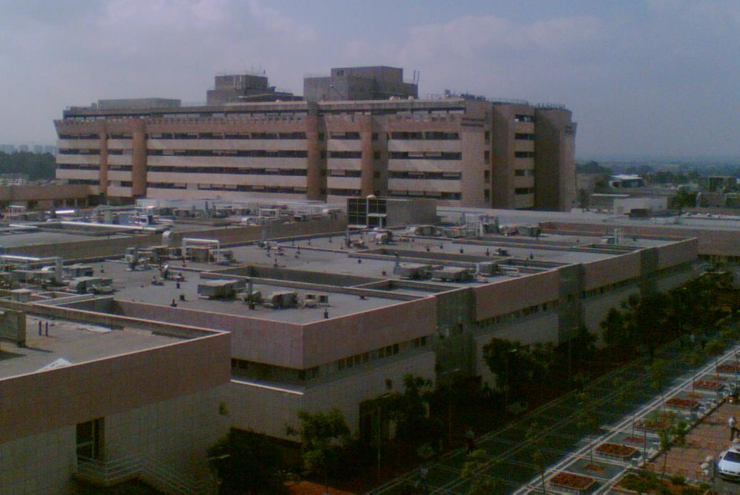 Sheba Medical Center, Main Hospitalization Tower